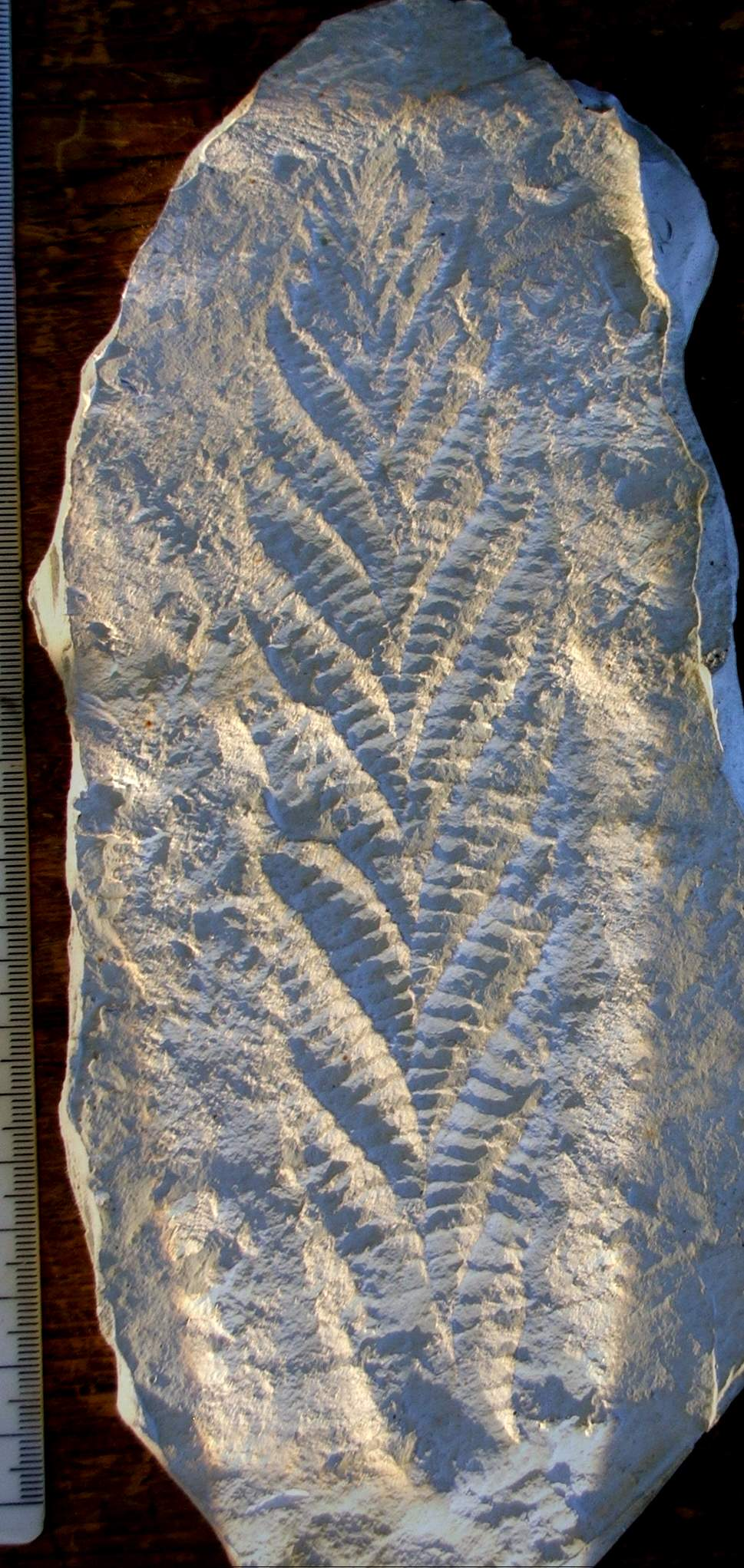 The specimen is a cast of the holotype of Charnia masoni. Combination of two images taken under low-angle tungsten light. Enhanced contrast.Ruler graduated in mm.